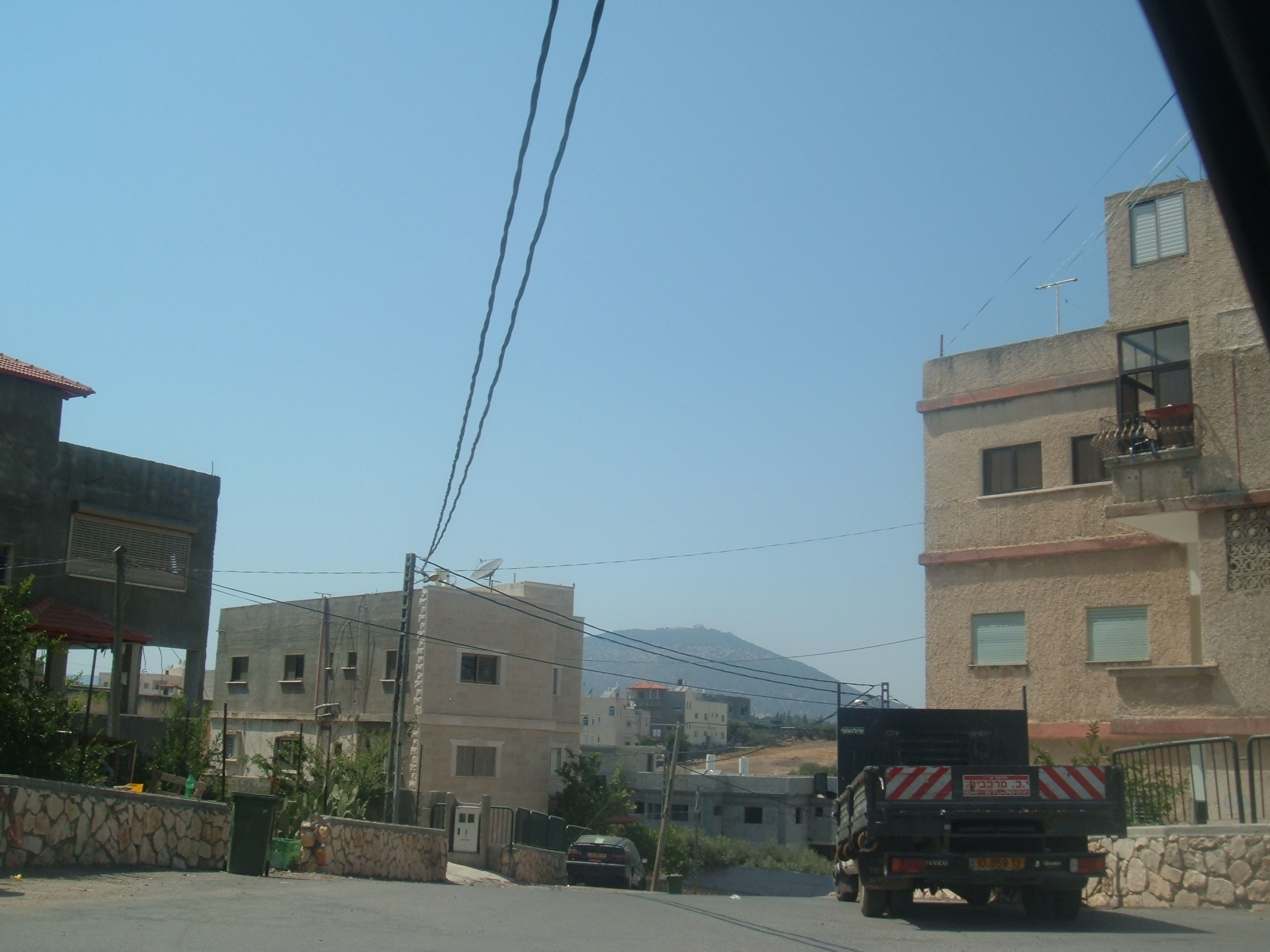 A street in Misr, israel. רחוב במצר, ישראל. ברקע - הר תבור